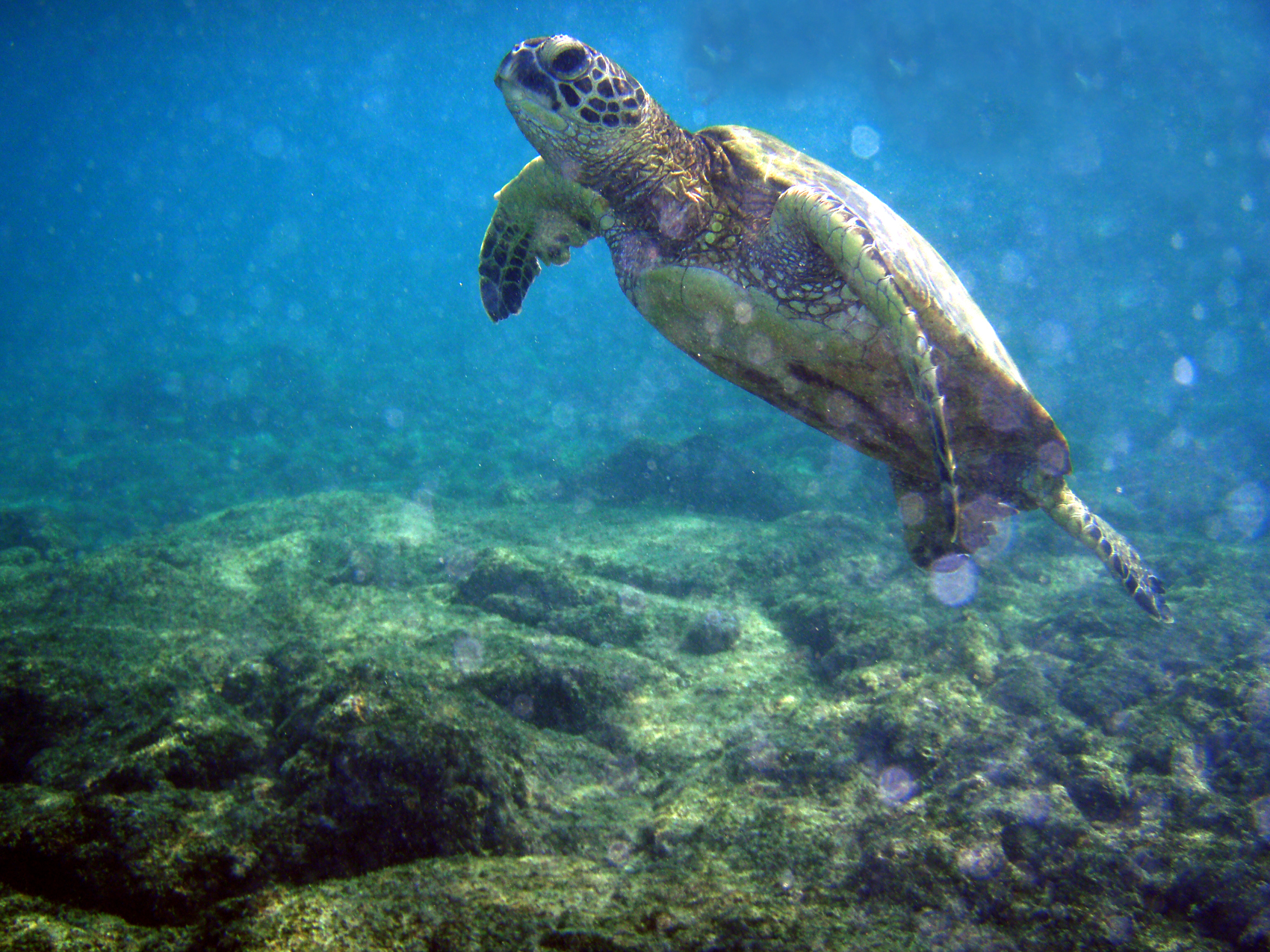 Green Sea Turtle, Chelonia mydas is swimming toward me on the Big Island of Hawaii